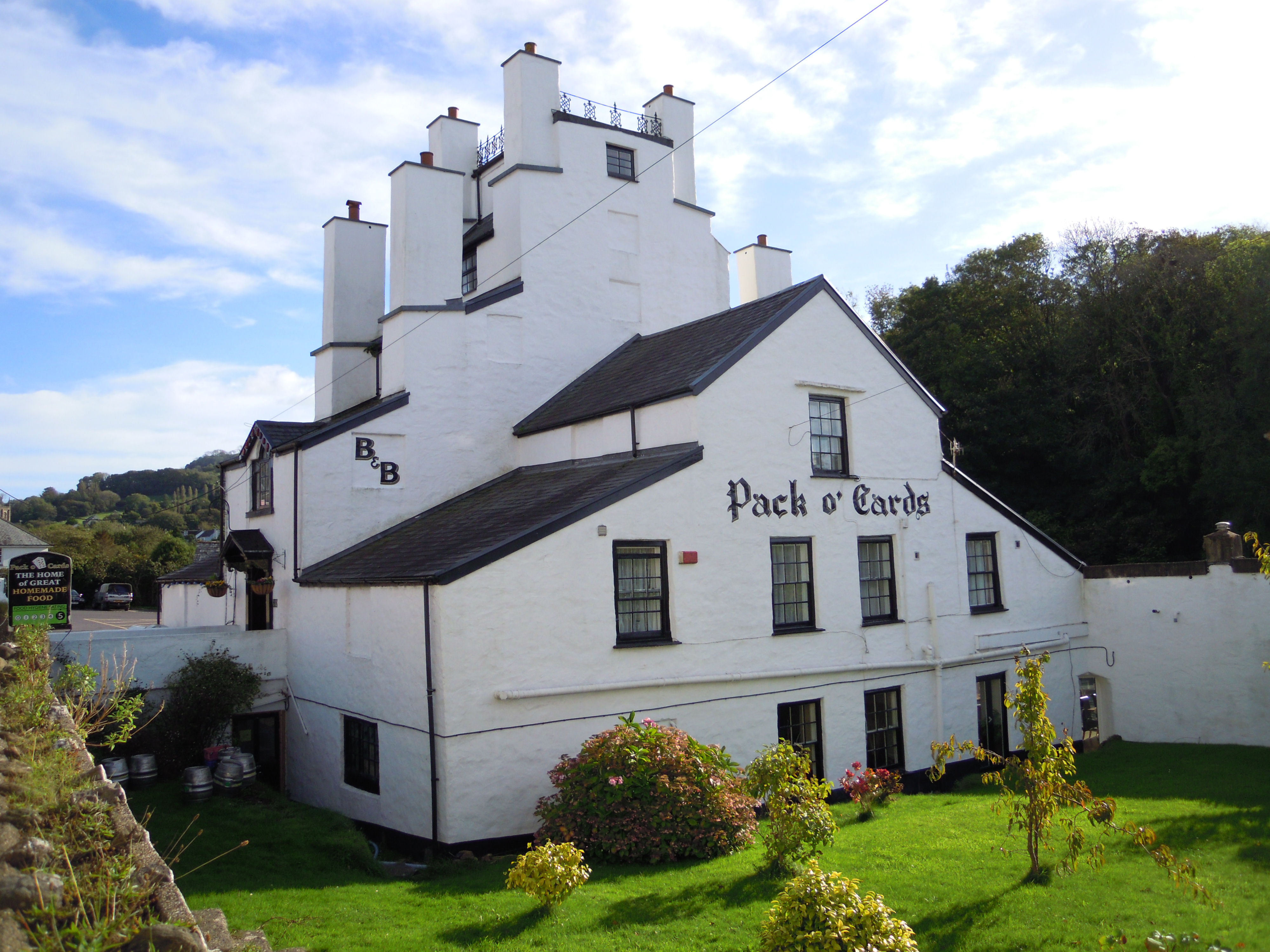 Rear view of the Pack o' Cards in Combe Martin in North Devon